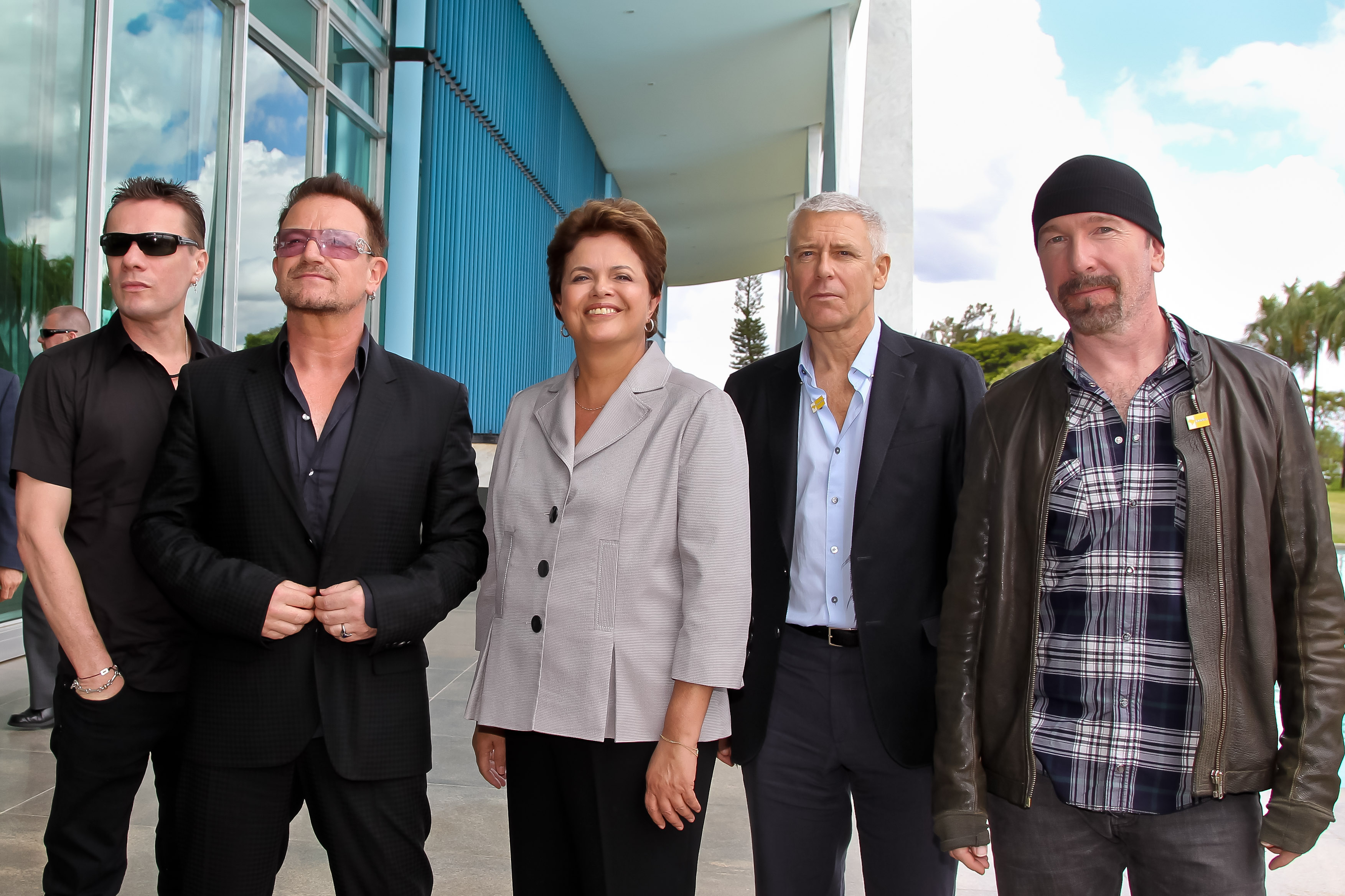 Dilma Rousseff during a meeting with the band U2 and co-founder of the ONE Foundation, Bono Vox